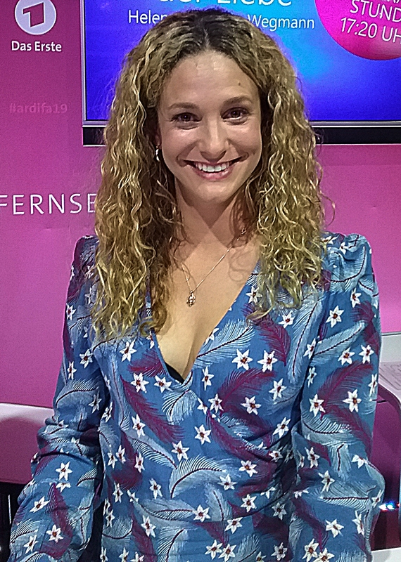 Léa Wegmann at the autograph session at the IFA 2019